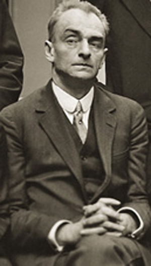 Lithuanian-French poet Oskaras Milašius